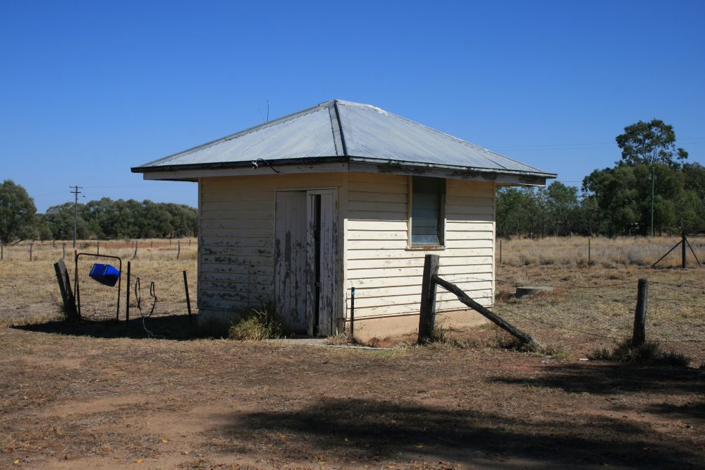 Isisford District Hospital (former) morgue (2014)